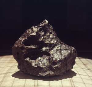 A 411 kilogram meteorite specimen part of the Santa Rosa de Viterbo Meteorite (official name Santa Rosa) in the National Museum of Colombia.